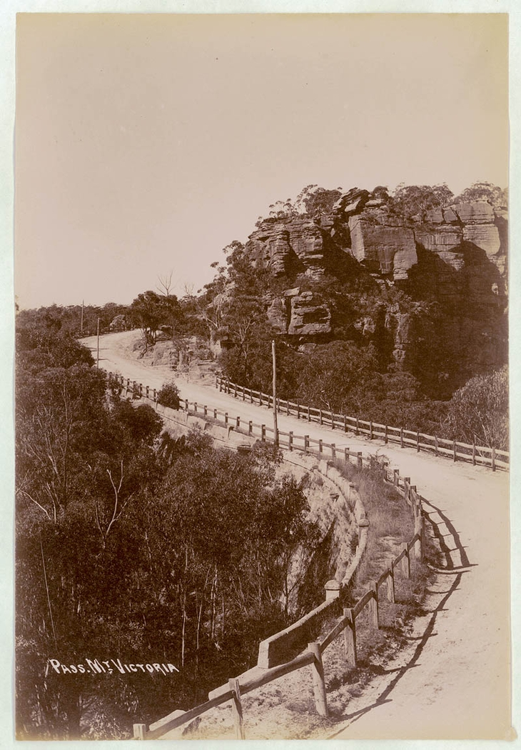 Victoria Pass, Great Western Road, NSW Photo taken between 1900-1910 Courtesy: State Library of New South Wales